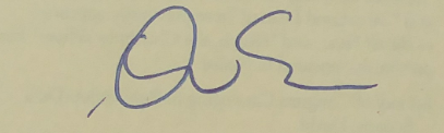 David Sedaris's signature, cropped from this image